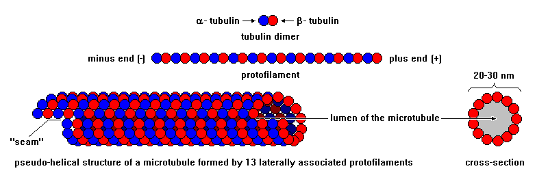 Structure of eucaryotic microtubules as formed by 13 protofilaments composed from tubuline dimers